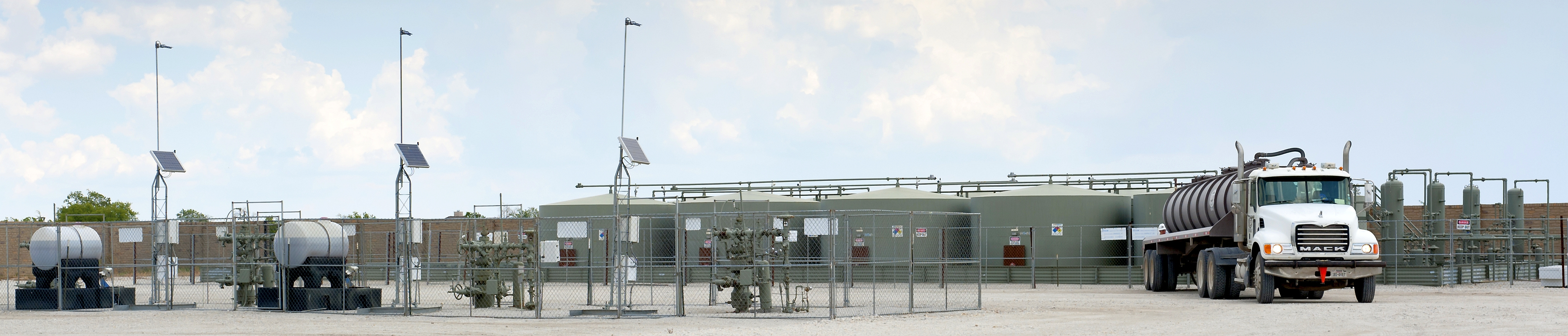 Natural gas fracking facility in DISH, Texas.